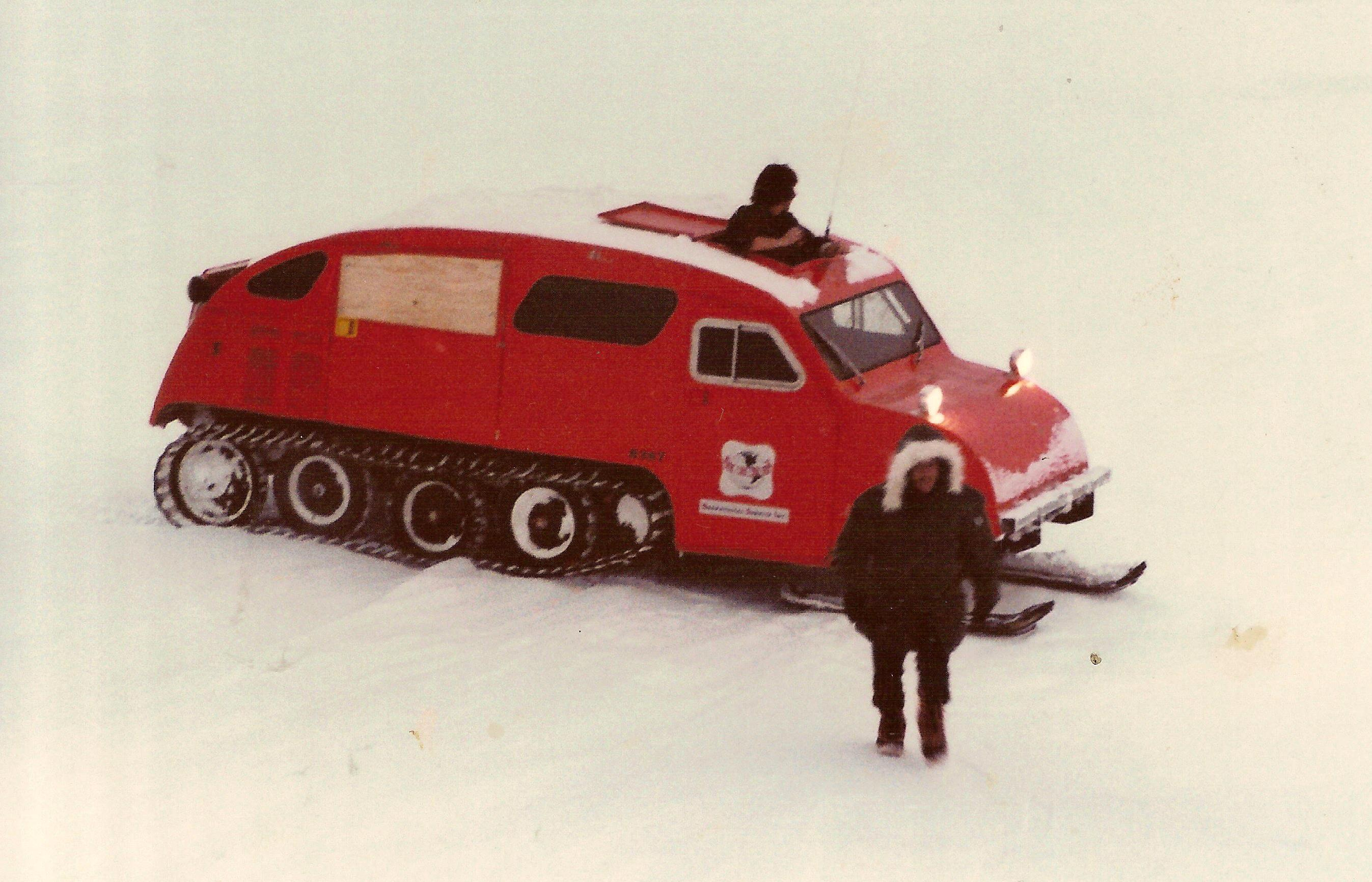 GSI Seismic Exploration Crew, Deadhorse Alaska, 11 January 1981